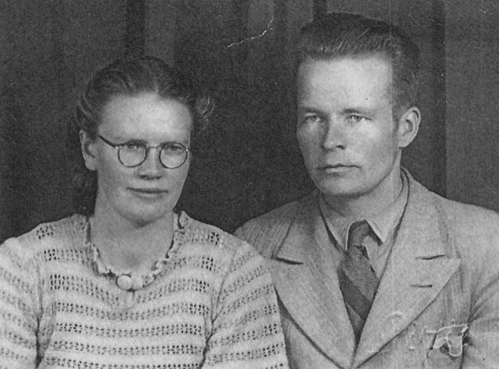 Photograph of the Finnish singer Vilho Kekkonen (1909–2014) with his wife Kaarina née Kauhanen.